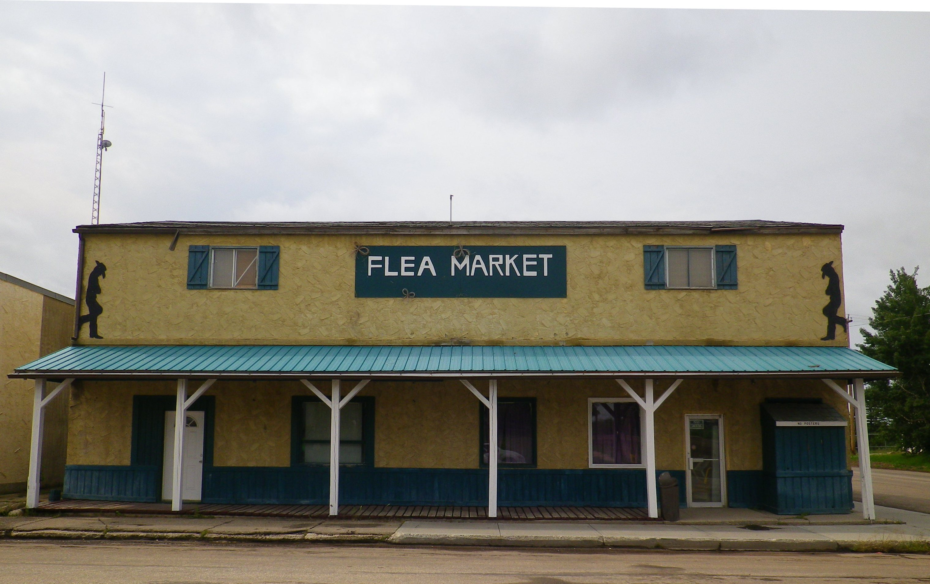 Flea market building in Sangudo, Alberta, Canada. On the second floor, to the left and to the right are stylized depictions of two cowboys.